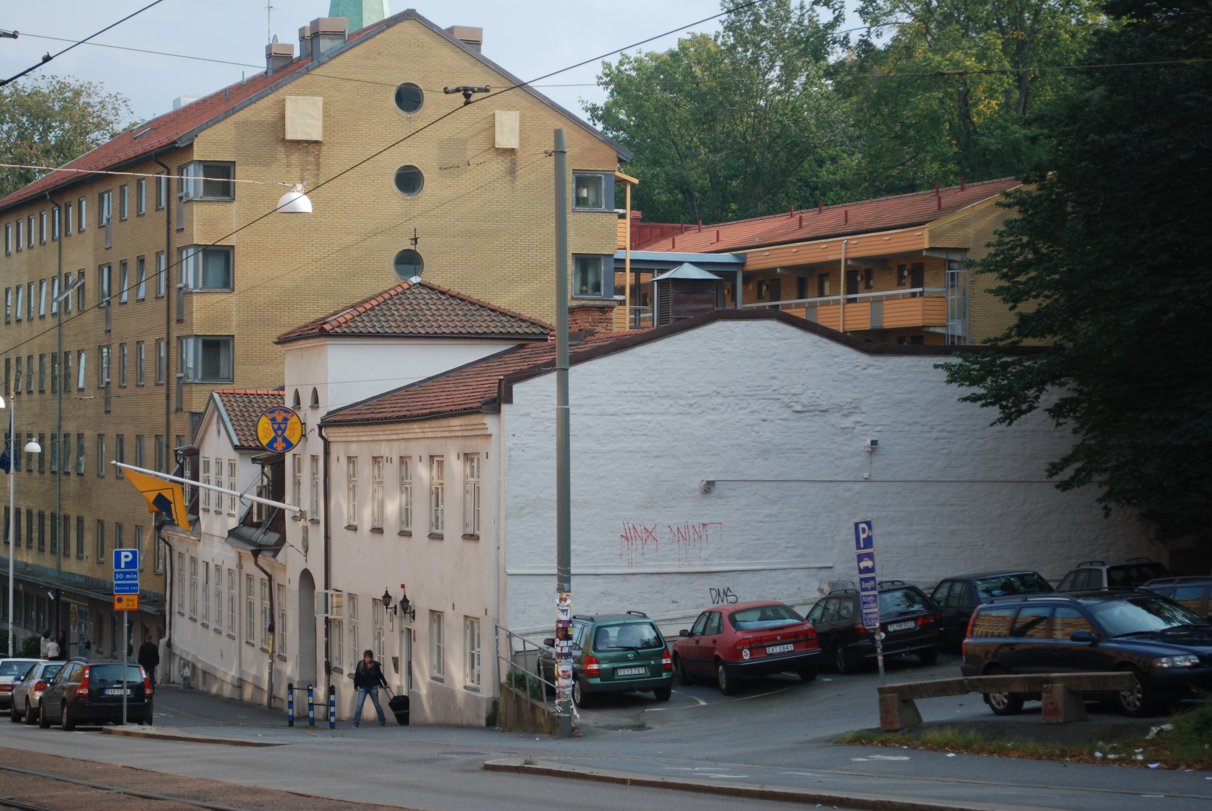 STF hostel Stigbergsliden.